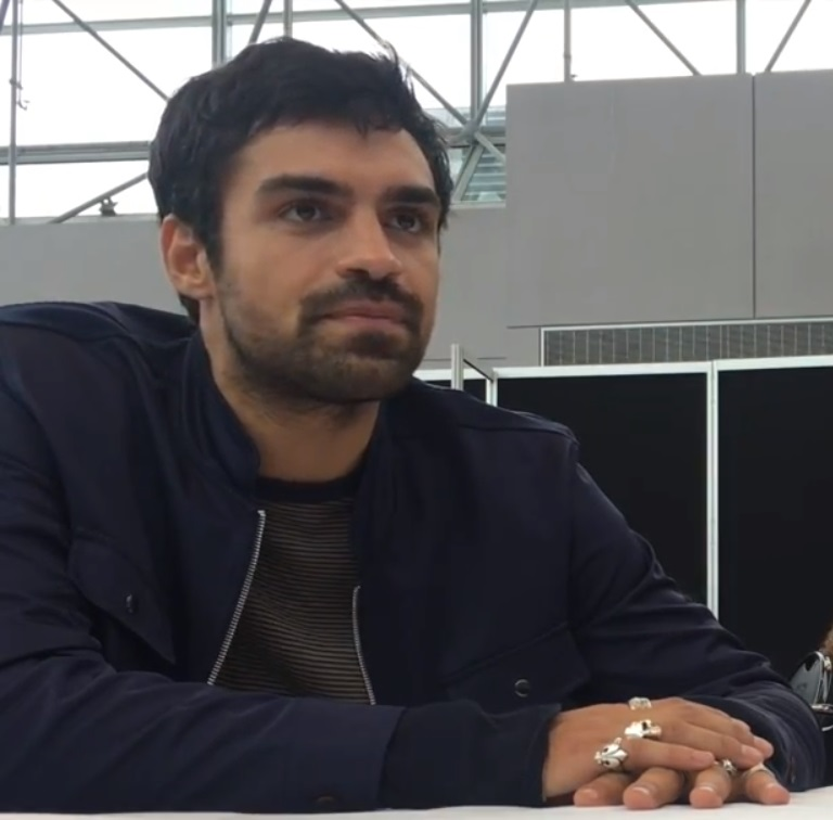 British actor Sean Teale of The Gifted, interviewed by Geeks of Doom at New York Comic Con in 2017.